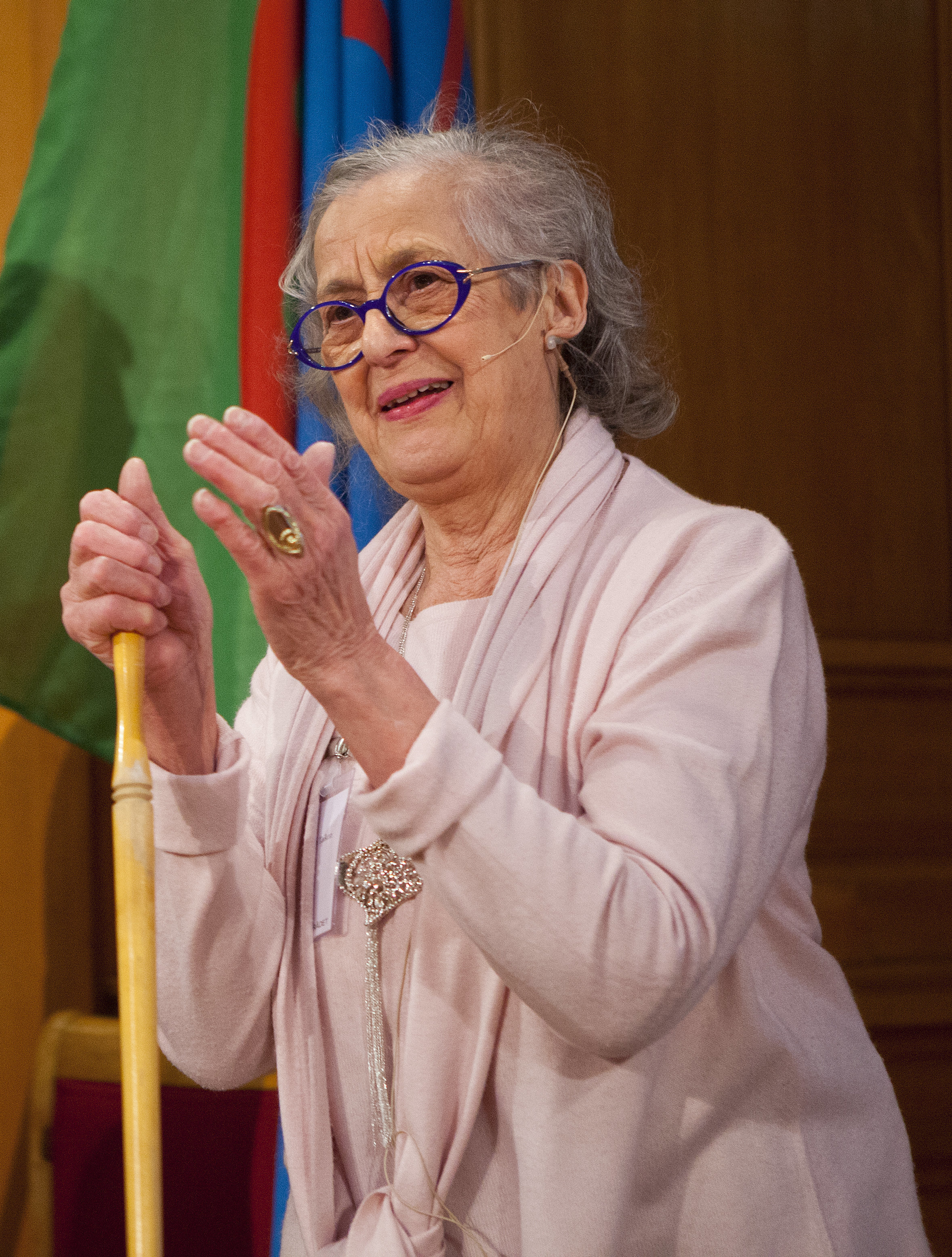 Rosa Taikon, a Swedish Romani silversmith and actor, together with the presenter Domino Kai at the Roma Jubilee Conference.